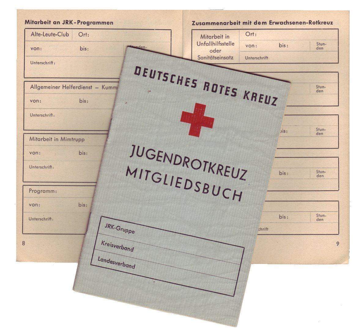 Book of Membership of the German Red Cross Youth